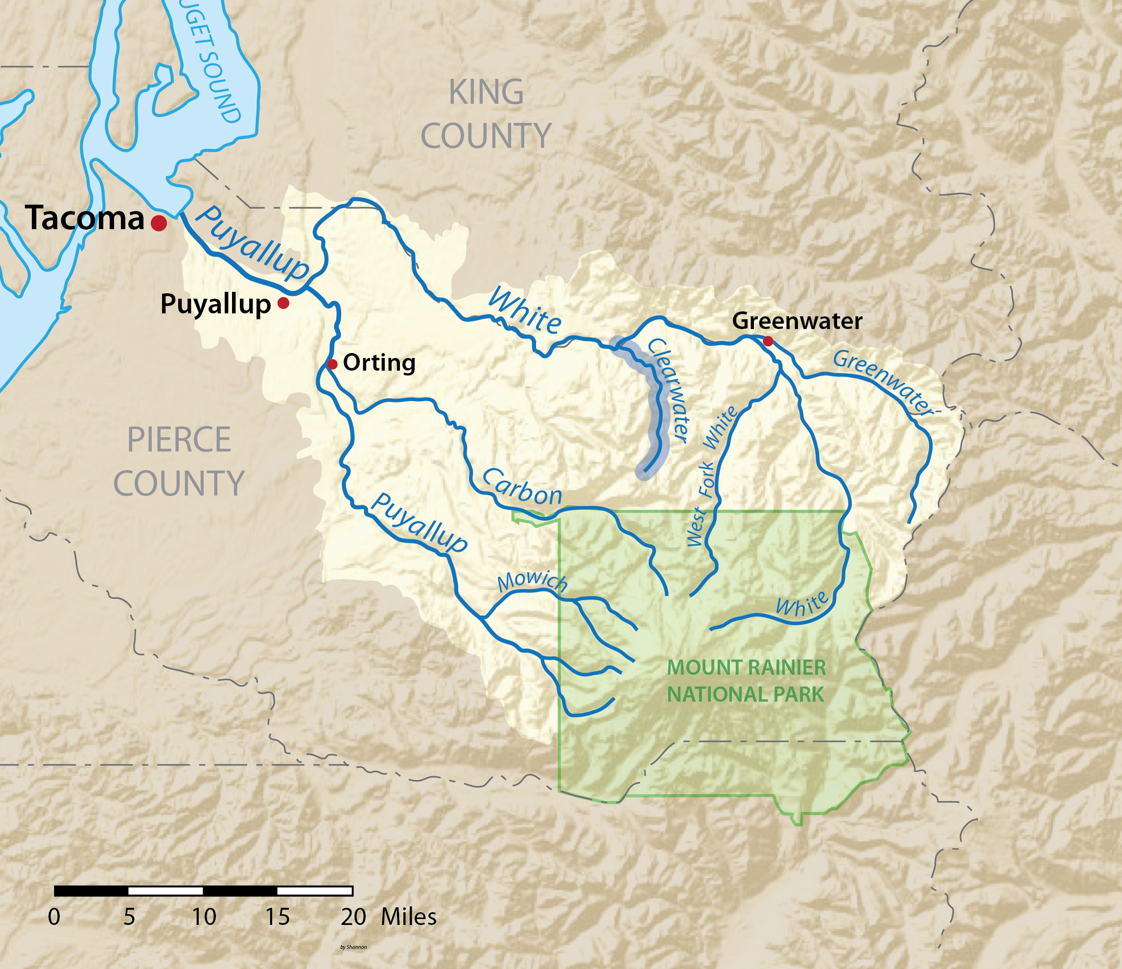 Map of the Puyallup River watershed in Washington, USA with the Clearwater River highlighted. Made using USGS National Map data.